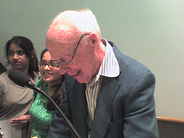 James D. Watson signing autographs at Cold Spring Harbor Laboratory